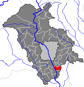 This map shows the area of the Gemeinde (municipality) Fernitz in the Bezirk (district) Graz-Umgebung, Styria, Austria.